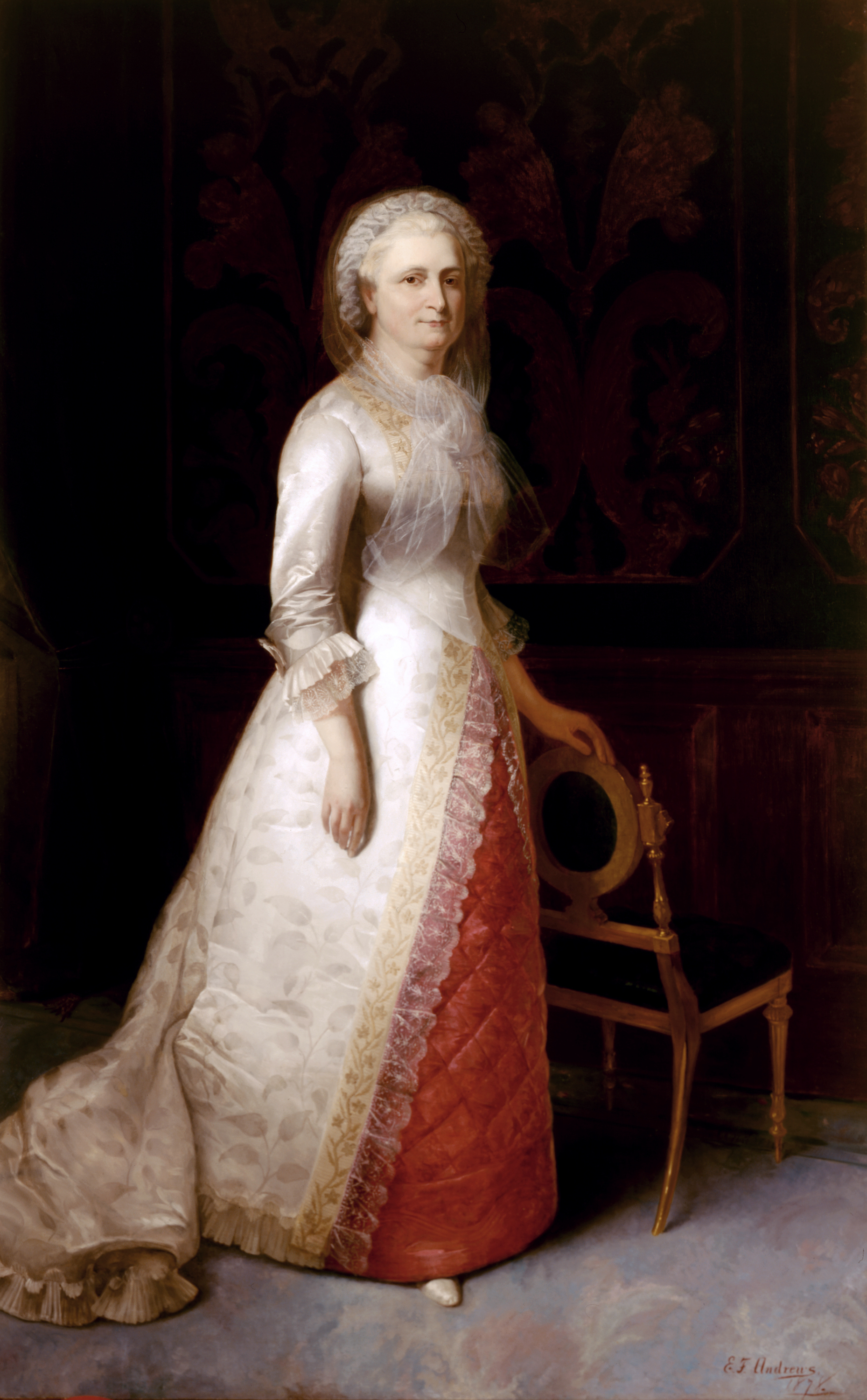 This posthumous portrait (1878) was based on a Gilbert Stuart original portrait of Lady Washington that was simply of the head and bust. The furnishings and dress are anachronistic. Andrews was the director of the Corcoran School of Art. It was displayed at the Cincinnati Industrial Exposition, and now hangs in the northeast corner of the East Room in the White House. 38°53′52″N 77°02′11″W / 38.897722°N 77.03627°W